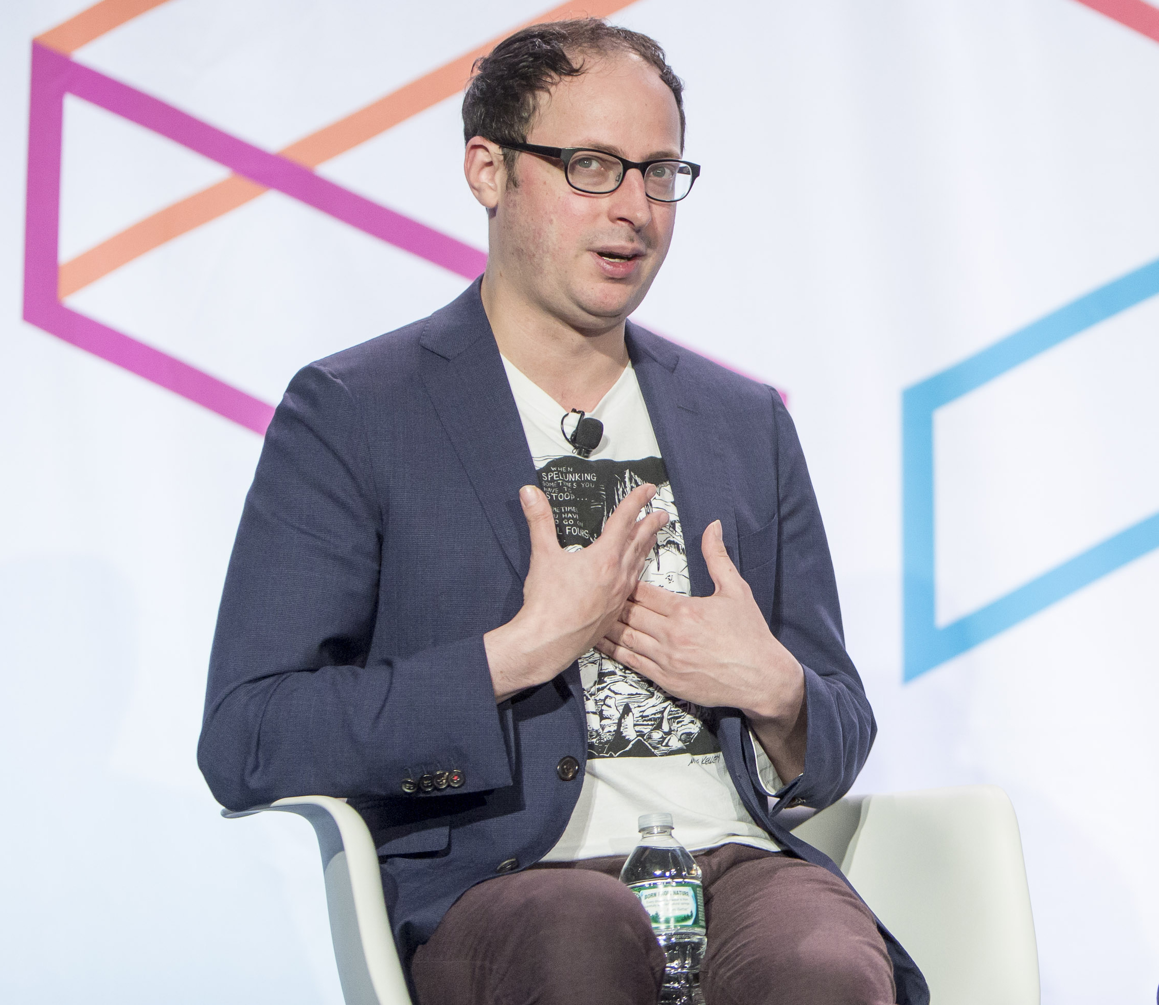 "Nate Silver in Conversation with NY1's Pat Kiernan" on the YP Stage on Day 1 of Internet Week New York May 18, 2015. INSIDER IMAGES/Gary He Cropped from original, see File:Nate Silver in Conversation with NY1's Pat Kiernan.jpg